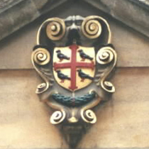 Coat of arms of St Edmund Hall, Oxford, sculpted above the door to the Porters' Lodge.